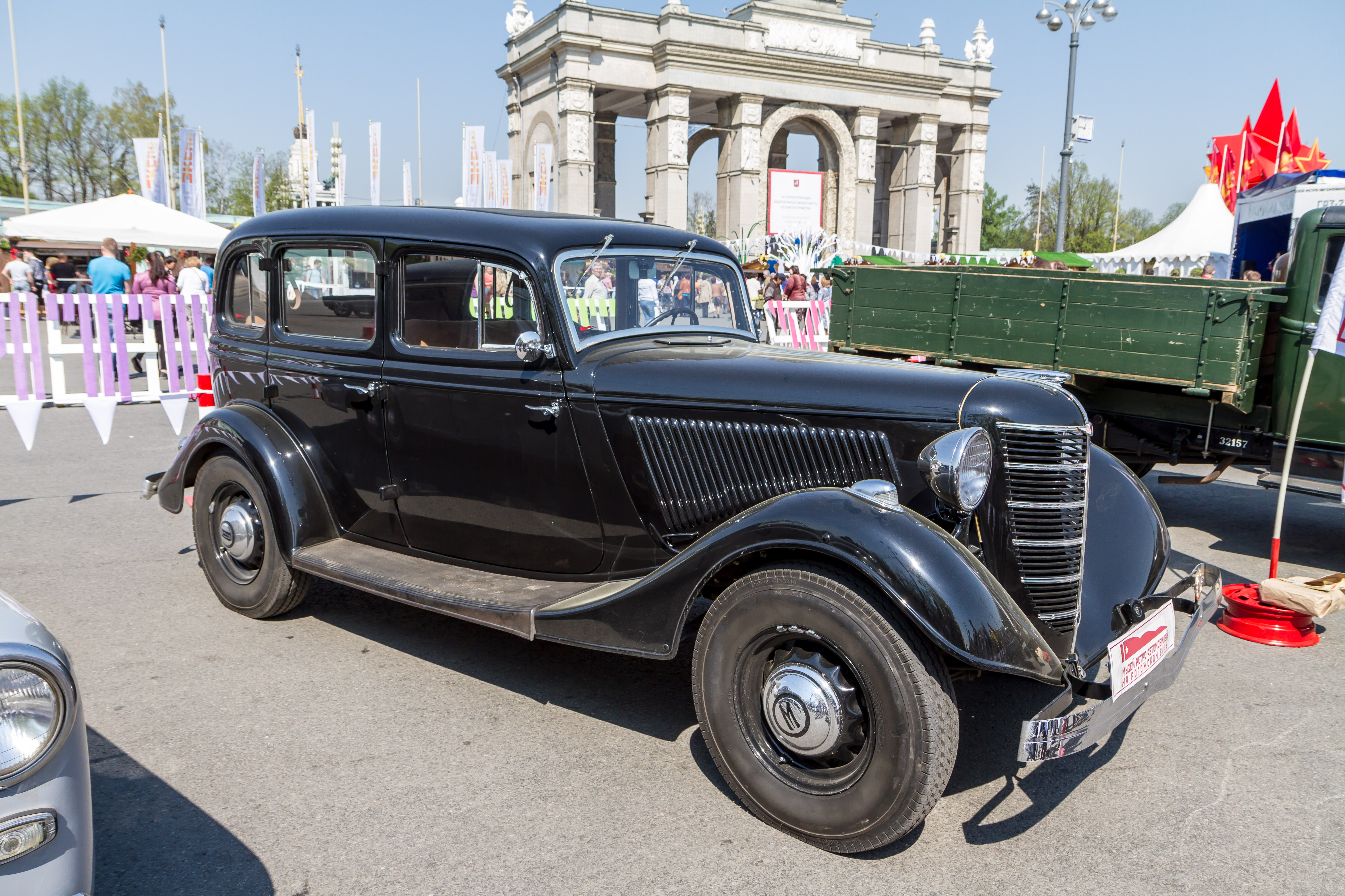 Ostankinsky District, Moscow, Russia